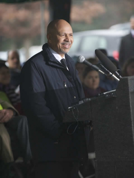 Libyan Ambassador to the United States Ali Suleiman Aujali delivers remarks at the Pan Am Flight 103 Memorial Service.